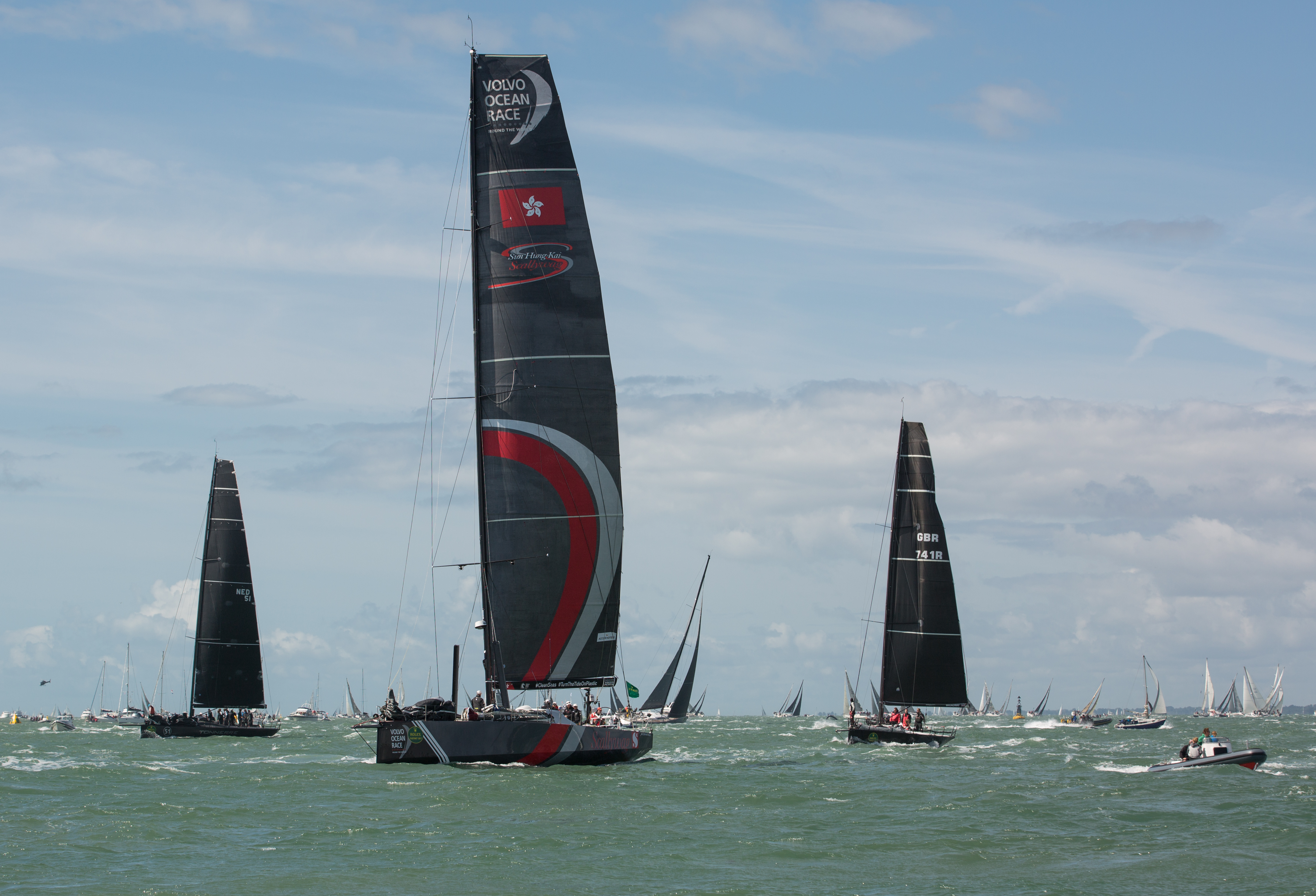 Fastnet weekend 2017-219 Yachts seen racing int he Solent off Cowes, Isle of Wight for the Fastnet 2017 race, held at the end of Cowes Week 2017.